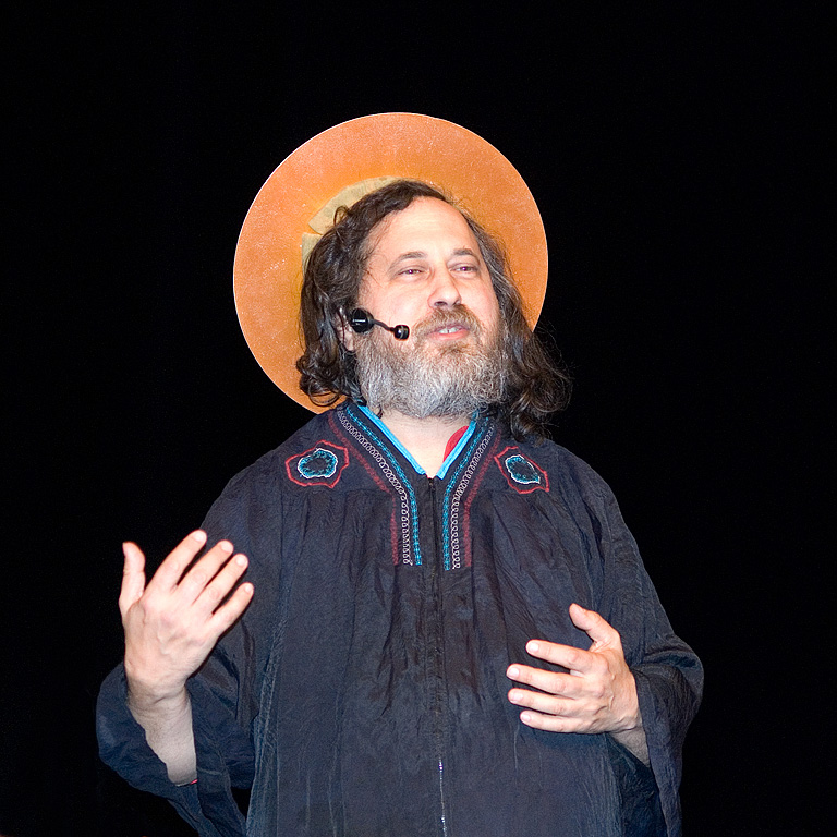 Richard Stallman speaking in Oslo as Saint IGNUcius. 2009-02-23.